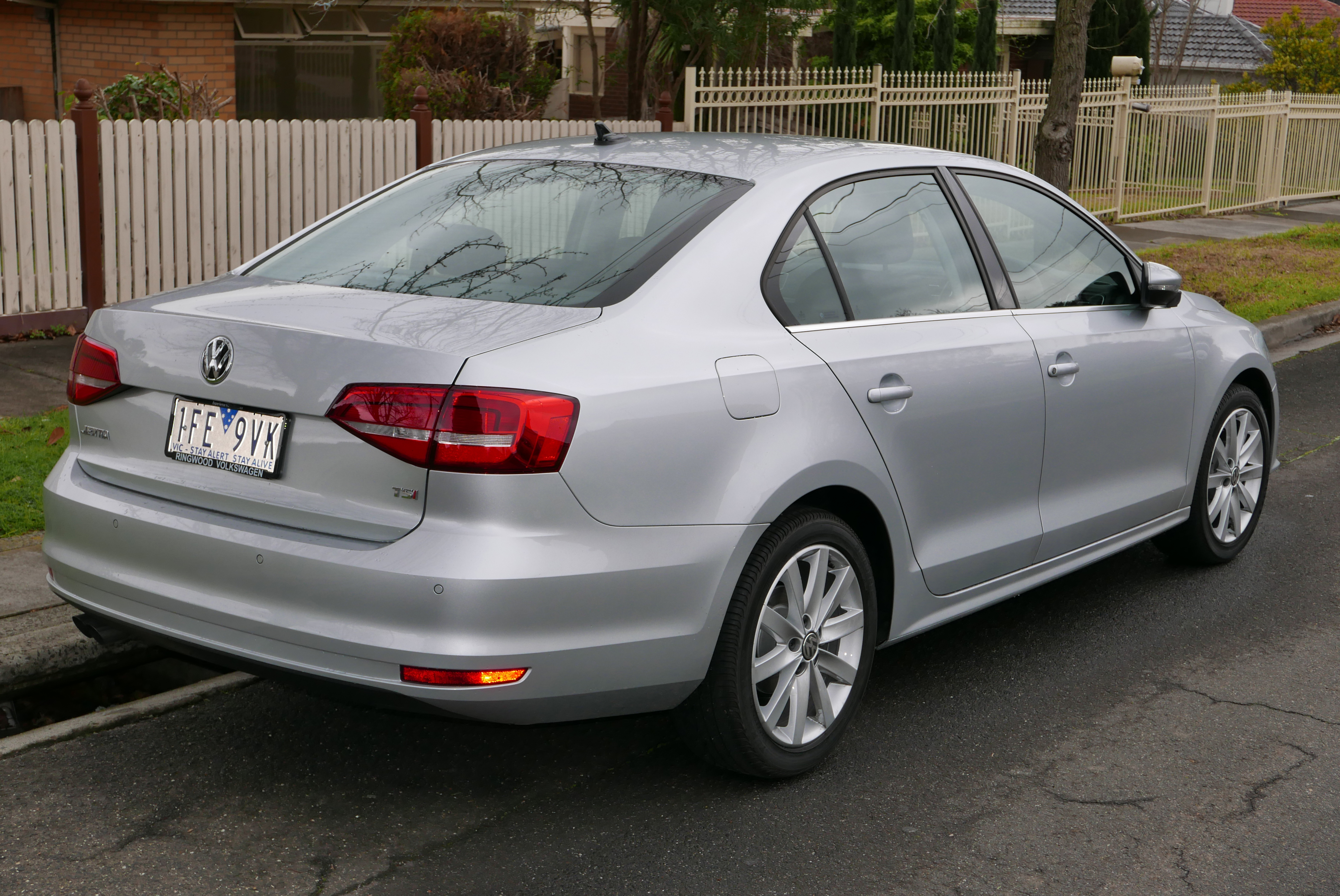 2015 Volkswagen Jetta (1B MY15) 118TSI Comfortline sedan. Photographed in Doncaster East, Victoria, Australia. Vehicle registration enquiry resultsJurisdictionVictoriaRegistration1FE9VKChassis codeWVWZZZ16ZFM042178Engine codeCTH211997Compliance date2015-06Year of manufacture2015